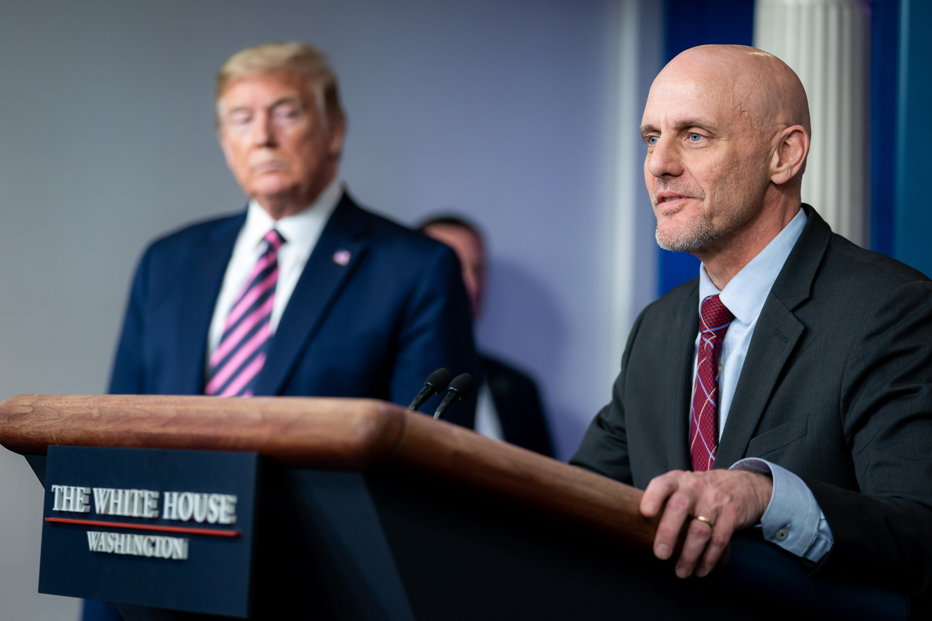 President Donald J. Trump listens as Dr. Stephen Hahn, Commissioner of the Food and Drug Administration, and a member of the White House Coronavirus Task Force, delivers remarks at a coronavirus (COVID-19) update briefing Friday, April 24, 2020, in the James S. Brady Press Briefing Room of the White House. (Official White House Photo by Tia Dufour)